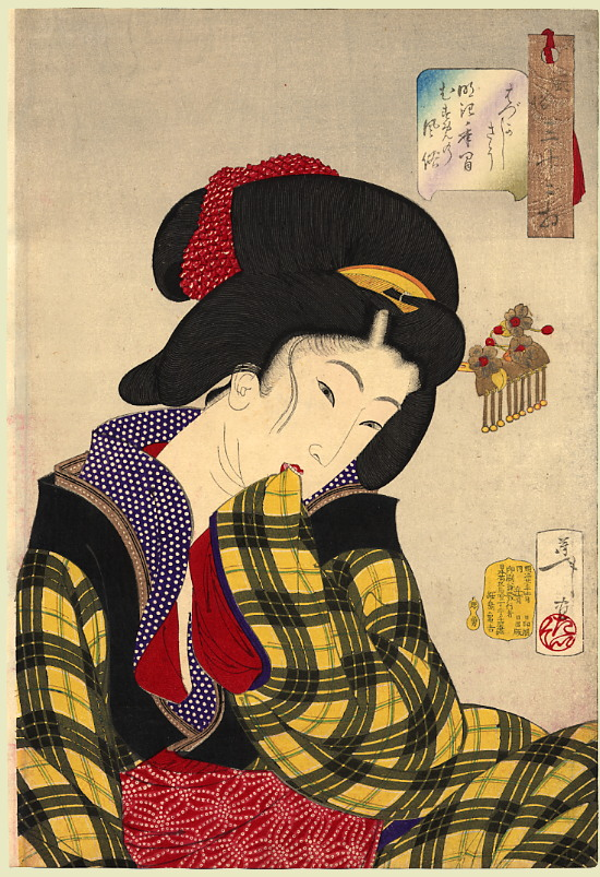 colored woodcut